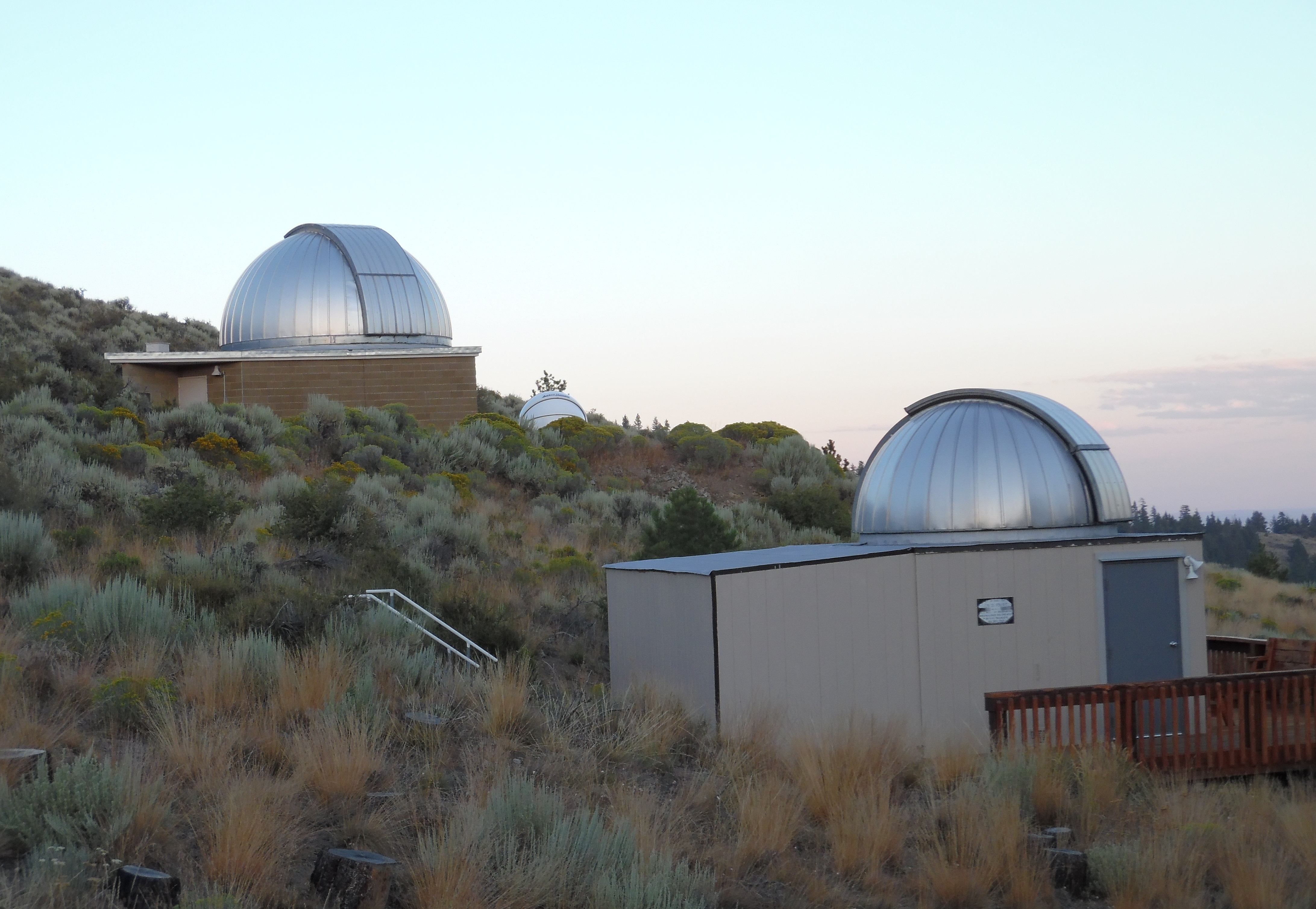 Three telescope domes at Pine Mountain Observatory in central Oregon